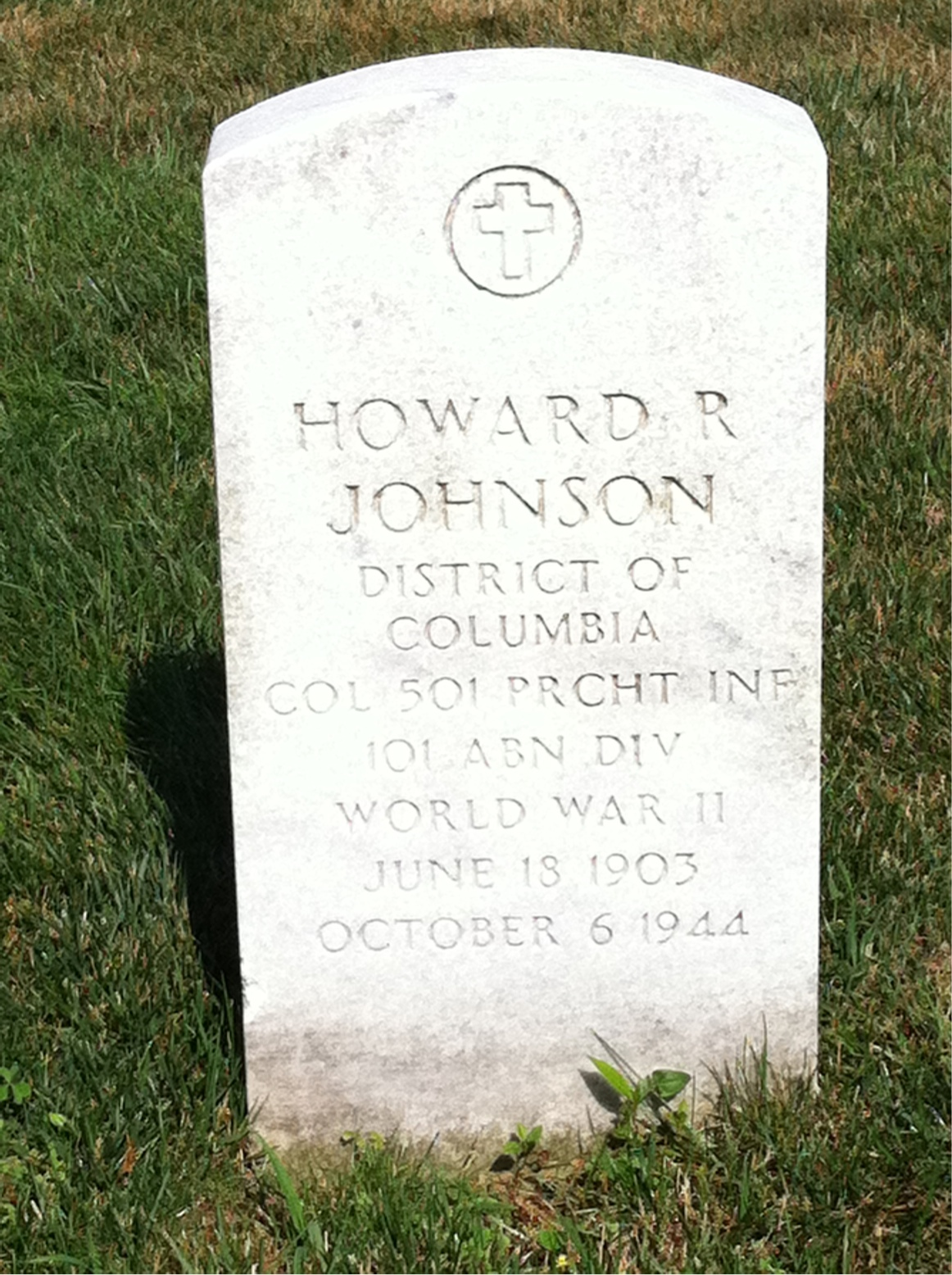 Grave of Howard R. Johnson at Arlington National Cemetery